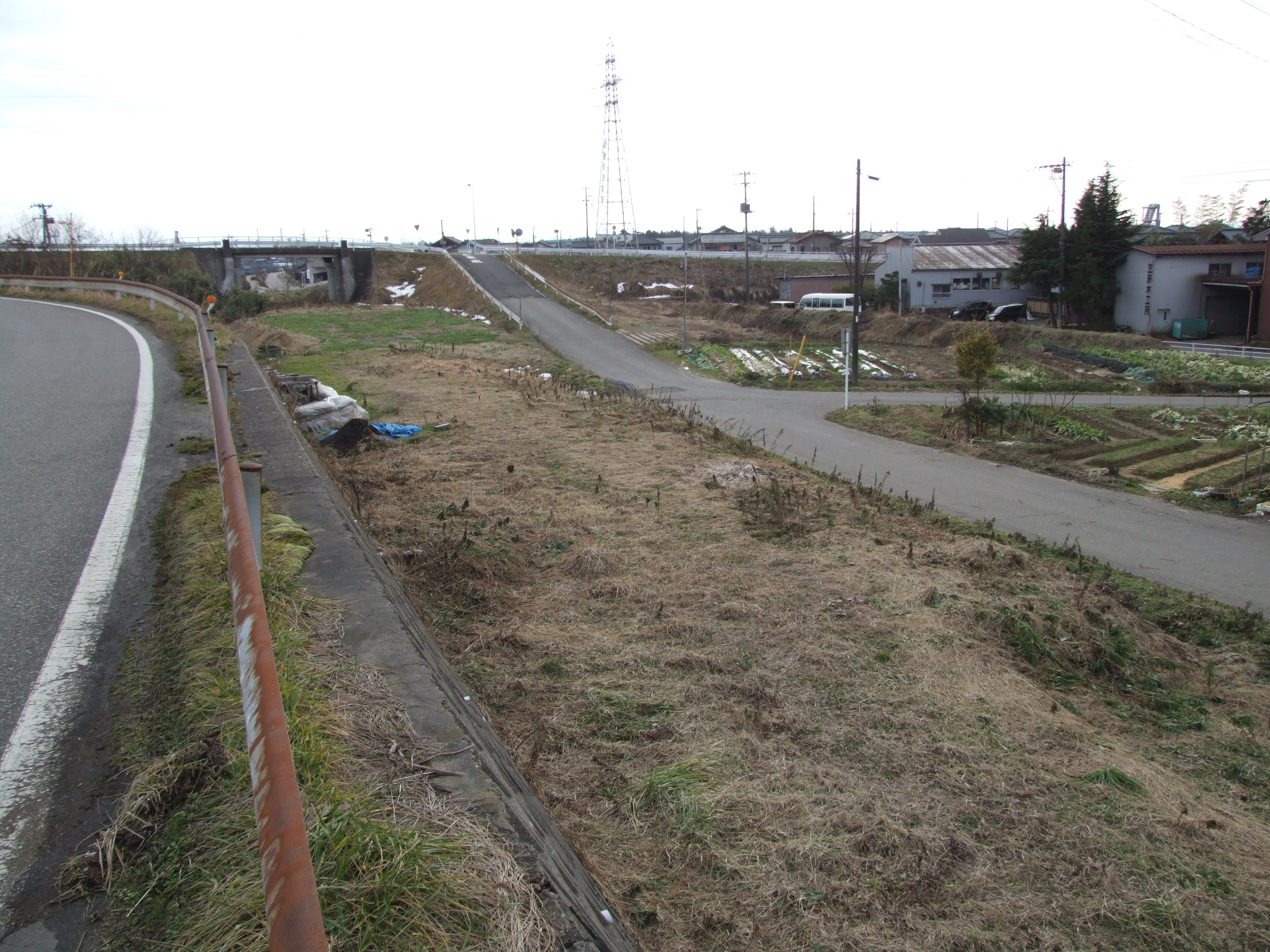 The remains of Sennichi Station, Niigata Kotsu Railway on January 11, 2010.